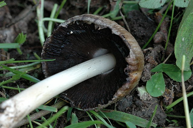 Coprinopsis atramentaria from Commanster, Belgium. The determination of the species shown in this picture has been verified.